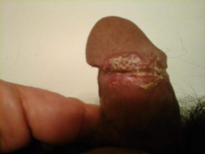 untreated balanitis in an italian adolescent.